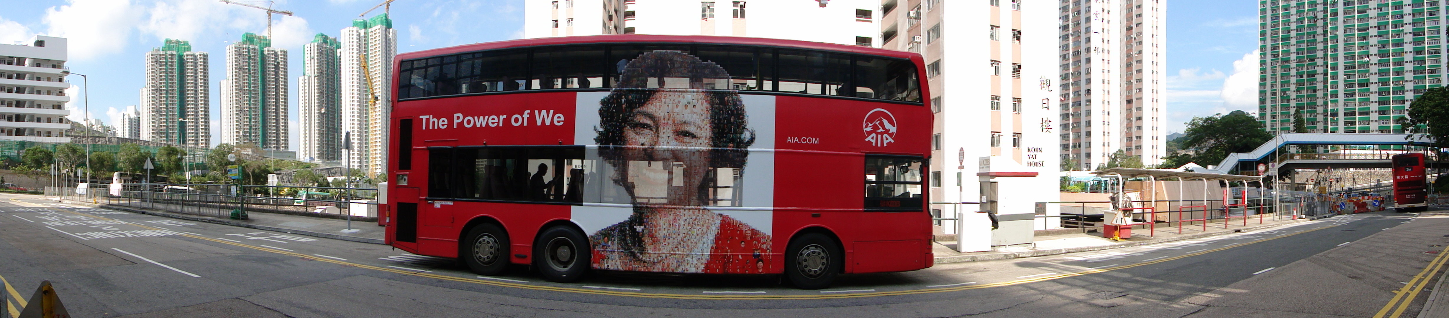 Choi Wan (Fung Shing Street) Bus Terminus, Hong Kong.